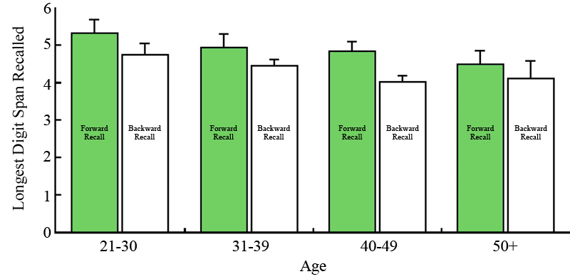 These are typical results that might be obtained from performing a forward/backward digit span recall test across a range of age groups.